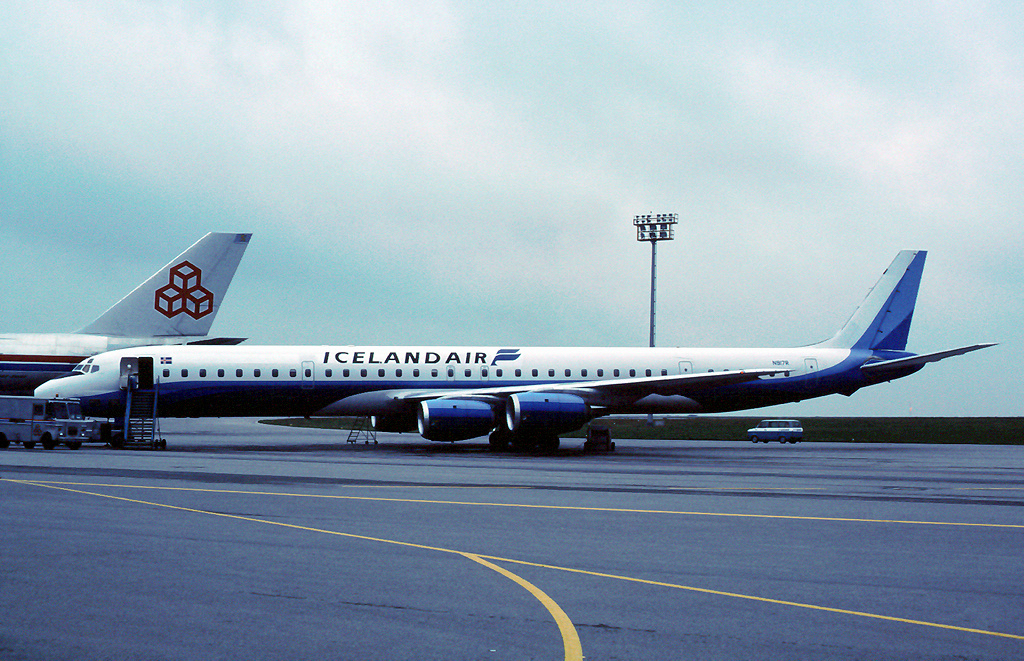 Icelandair Douglas DC-8-71 N917Rat Luxembourg-Findel International Airport